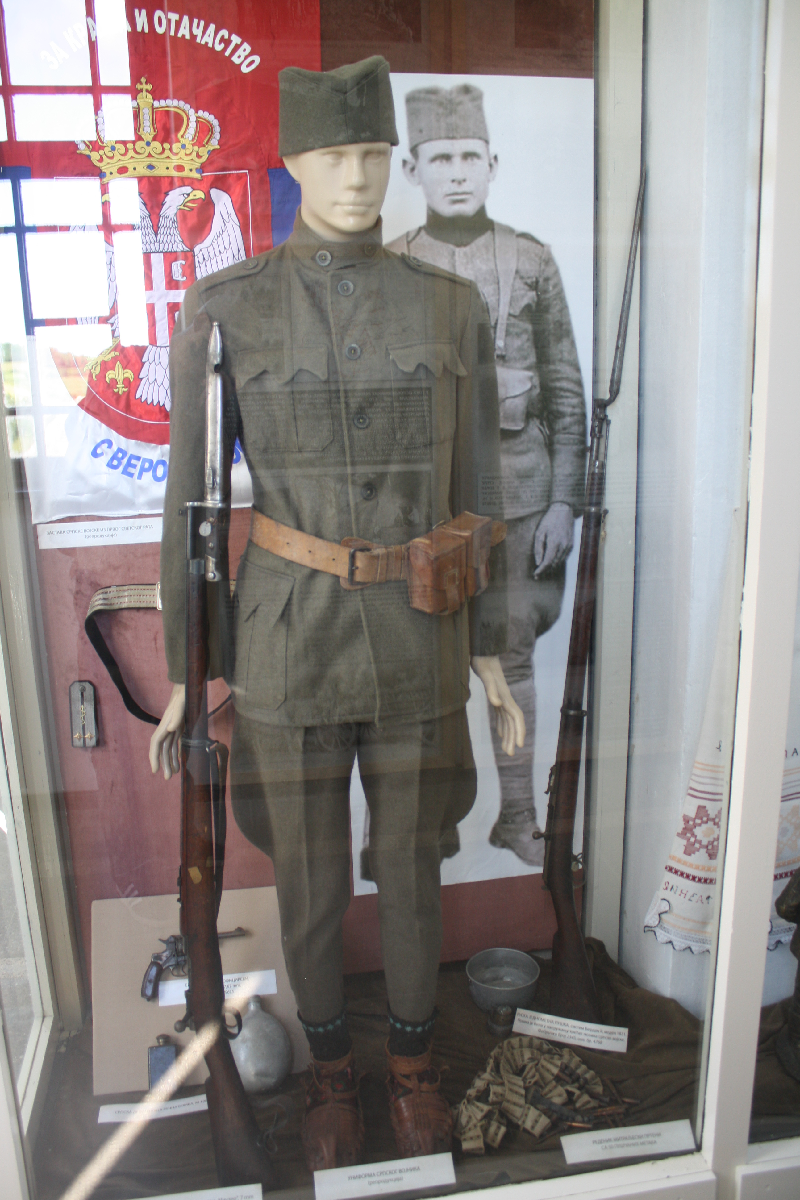 The uniform used by Serbian army during WW1 from August 1914 to retreat thru Albania